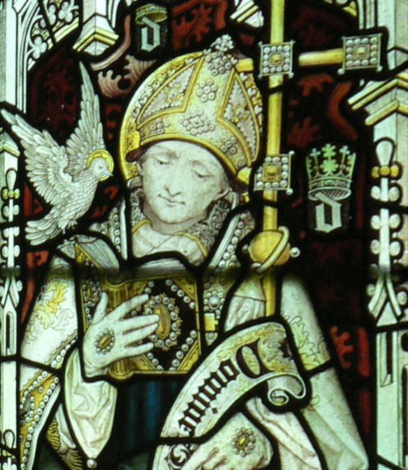 Stained glass window in Jesus College Chapel, Oxford, showing St David. Late 19th century.